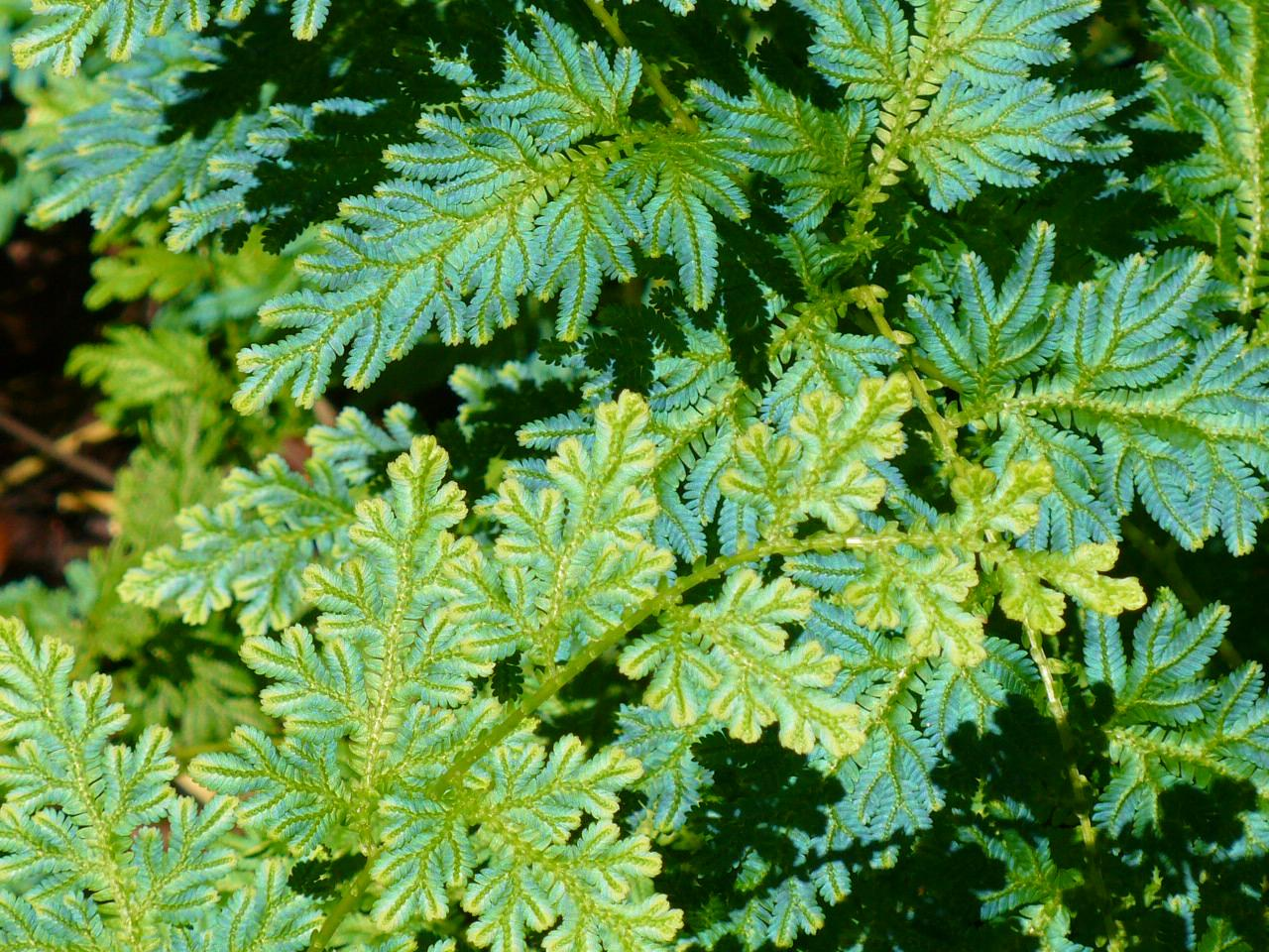 Fairchild Tropical Botanic Garden, Miami, FL